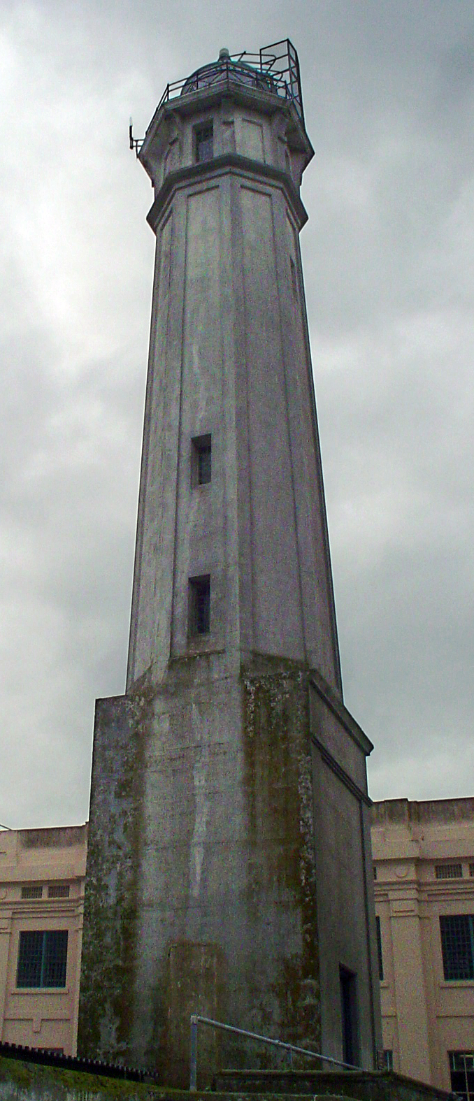 The lighthouse tower with the former federal prison cellhouse in the background on Alcatraz Island in San Francisco Bay, CA.